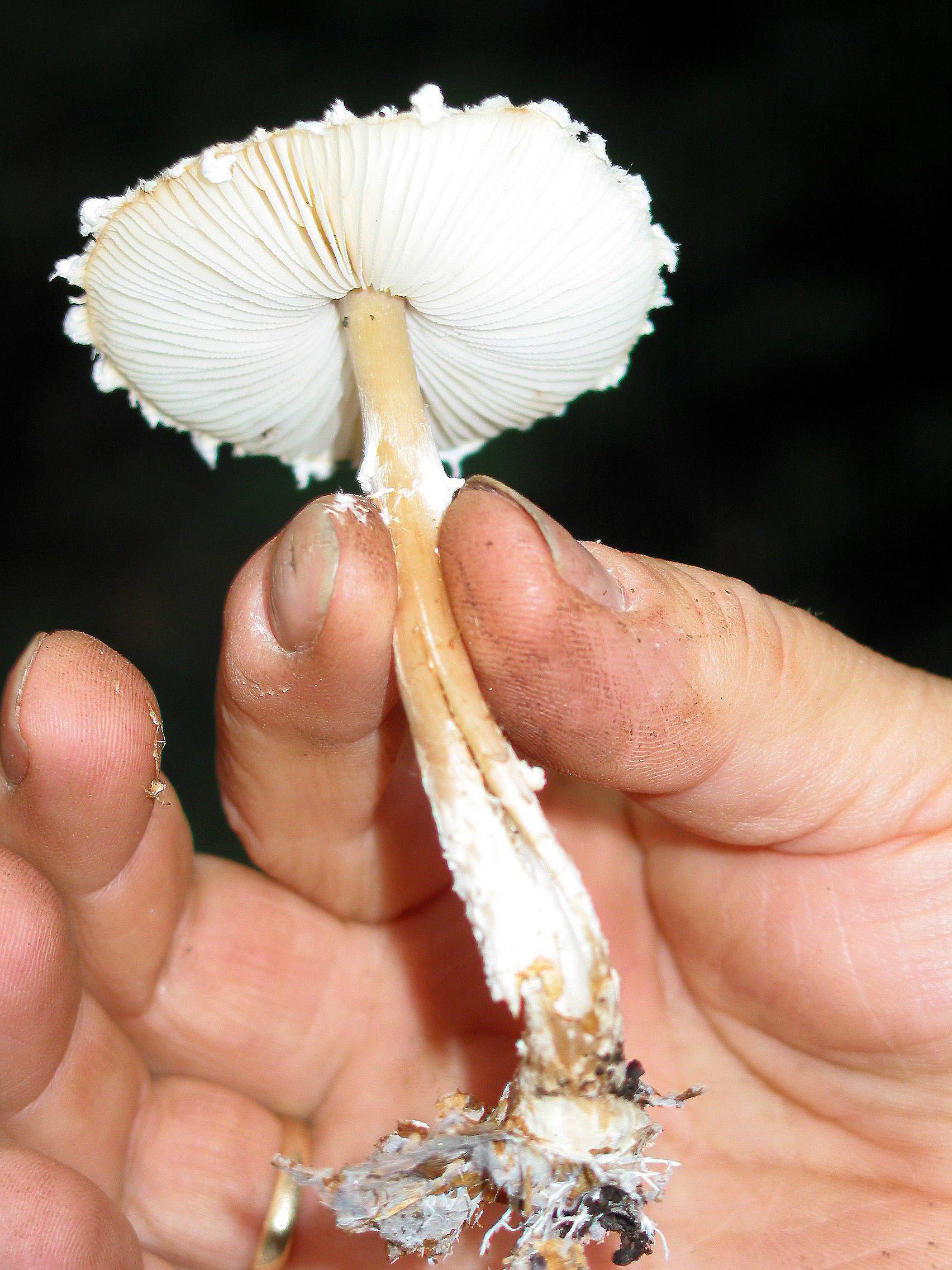 Star dapperling , stinking parasol , On, Belgium